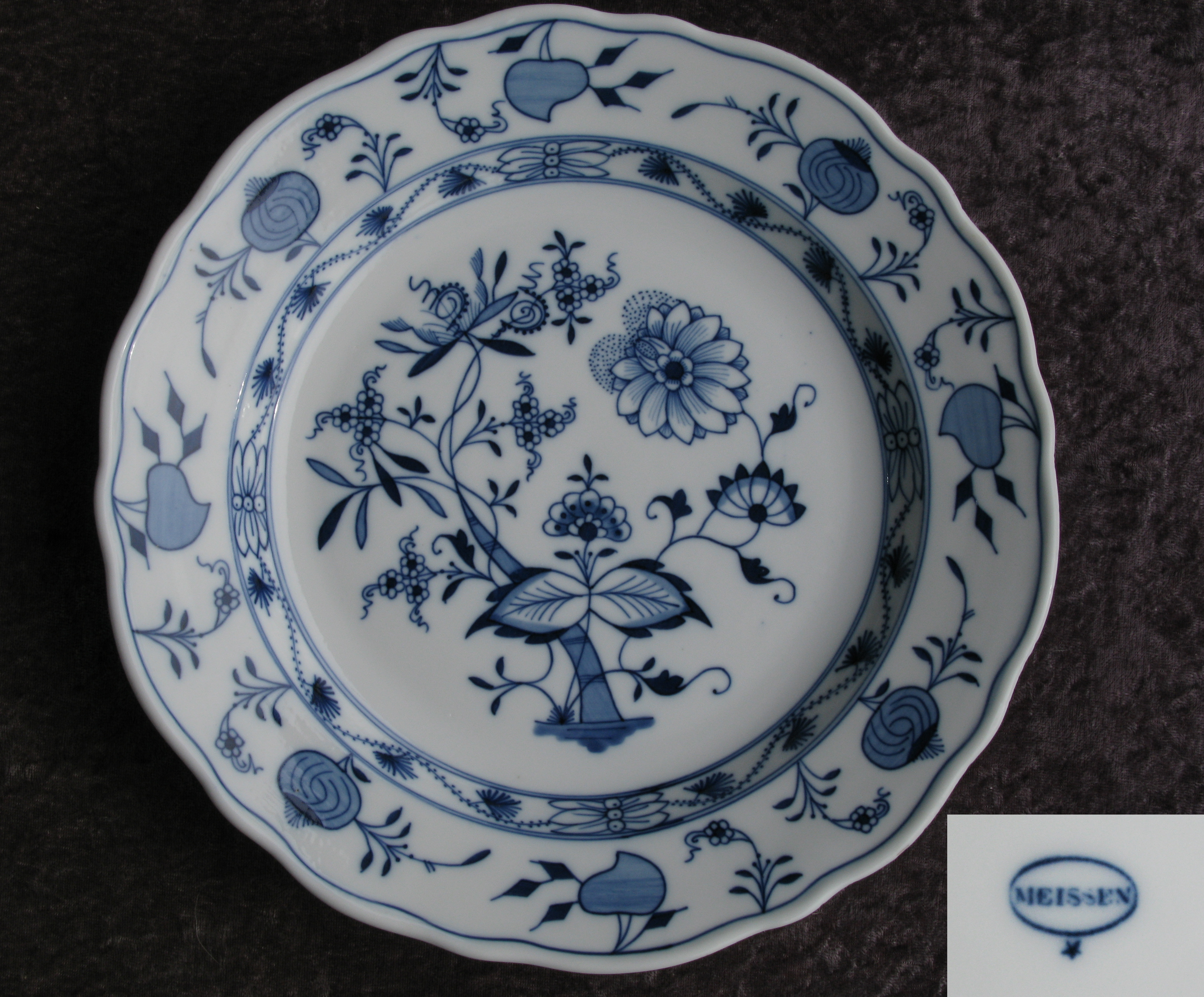 Meißner Ofen- und Porzellanfabrik, Meissen tableware, blue oinon pattern